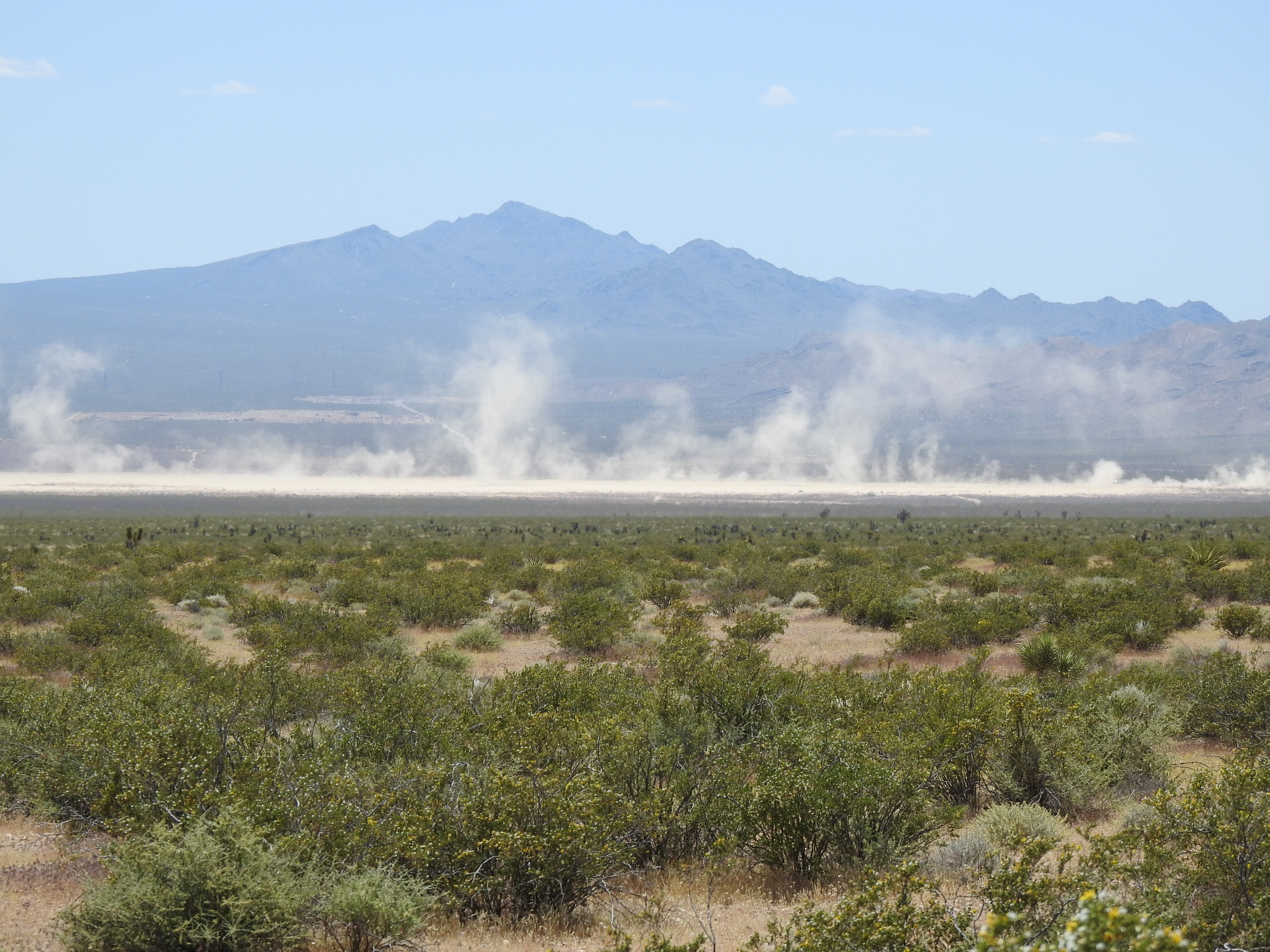 BLM permits ATVs on Jean Lake (or Jean Dry Lake) when conditions are dry enough to warrant. It's a self-policing policy in that the wet lake bed presents a muddy bog that will trap any vehicle or operator foolish enough to venture out.